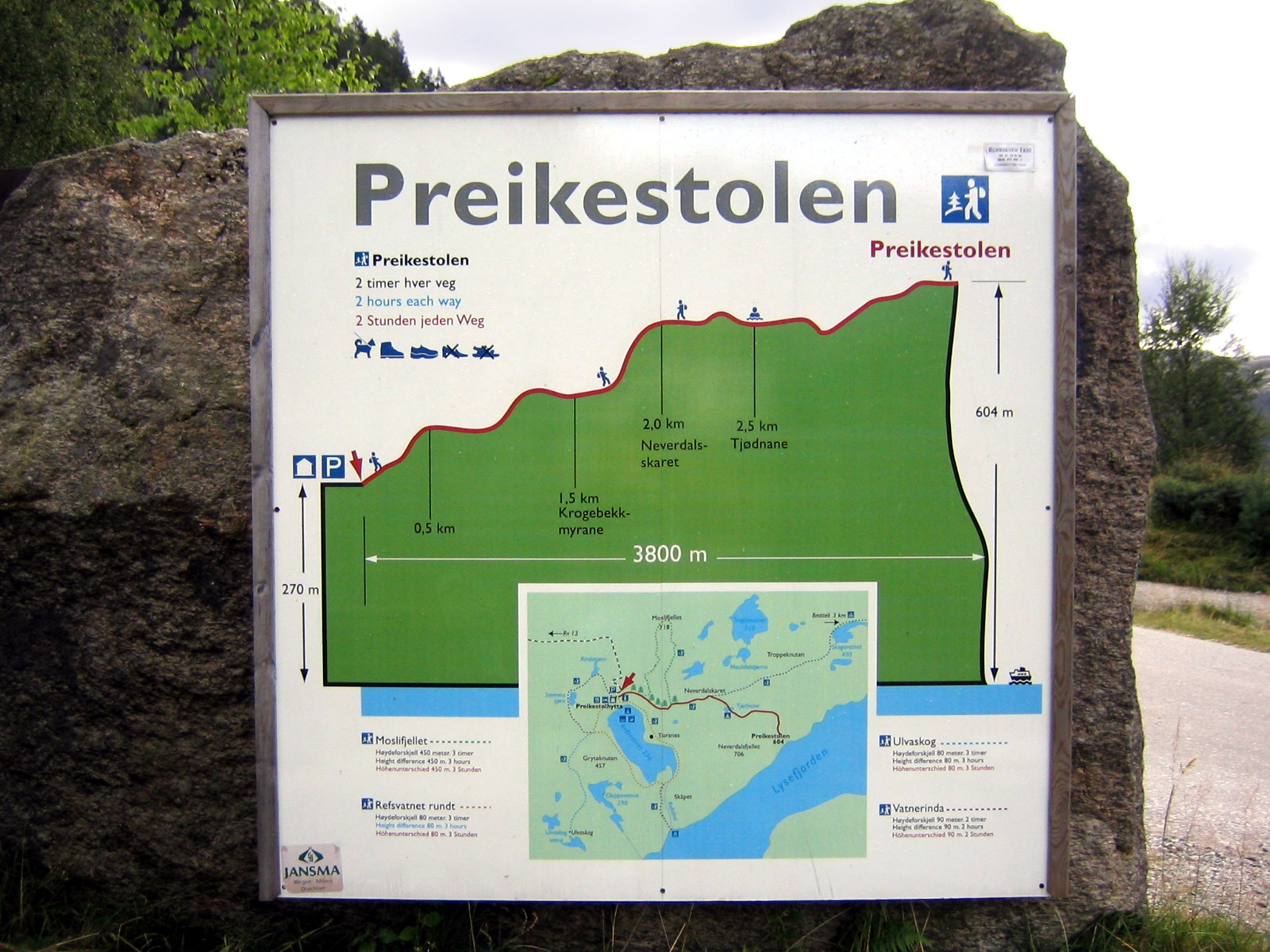 Cross country tread of the hiking trail to the Preikestolen, Norway